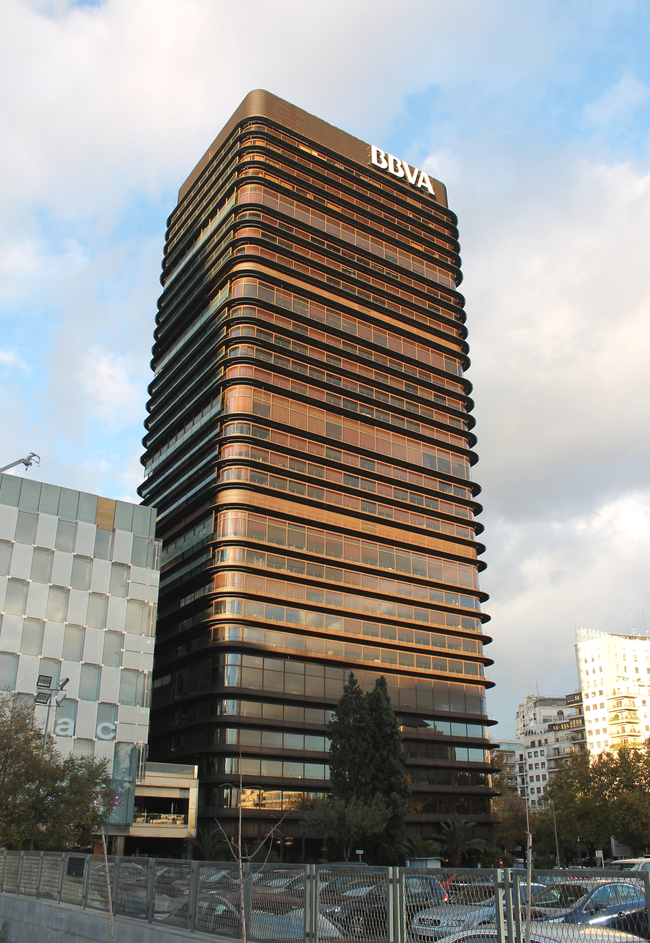 View of BBVA Tower in Madrid (Spain).